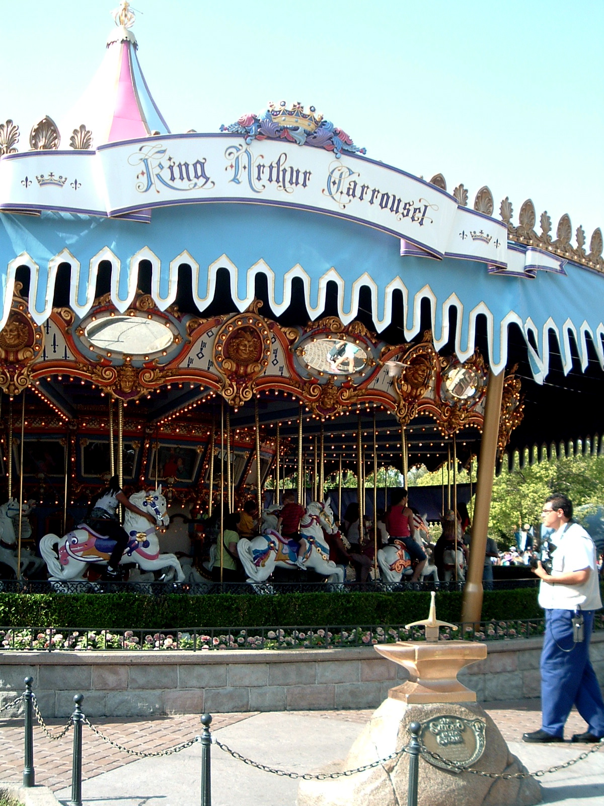 King Arthur's Carrousel with the Sword in the Stone at Disneyland